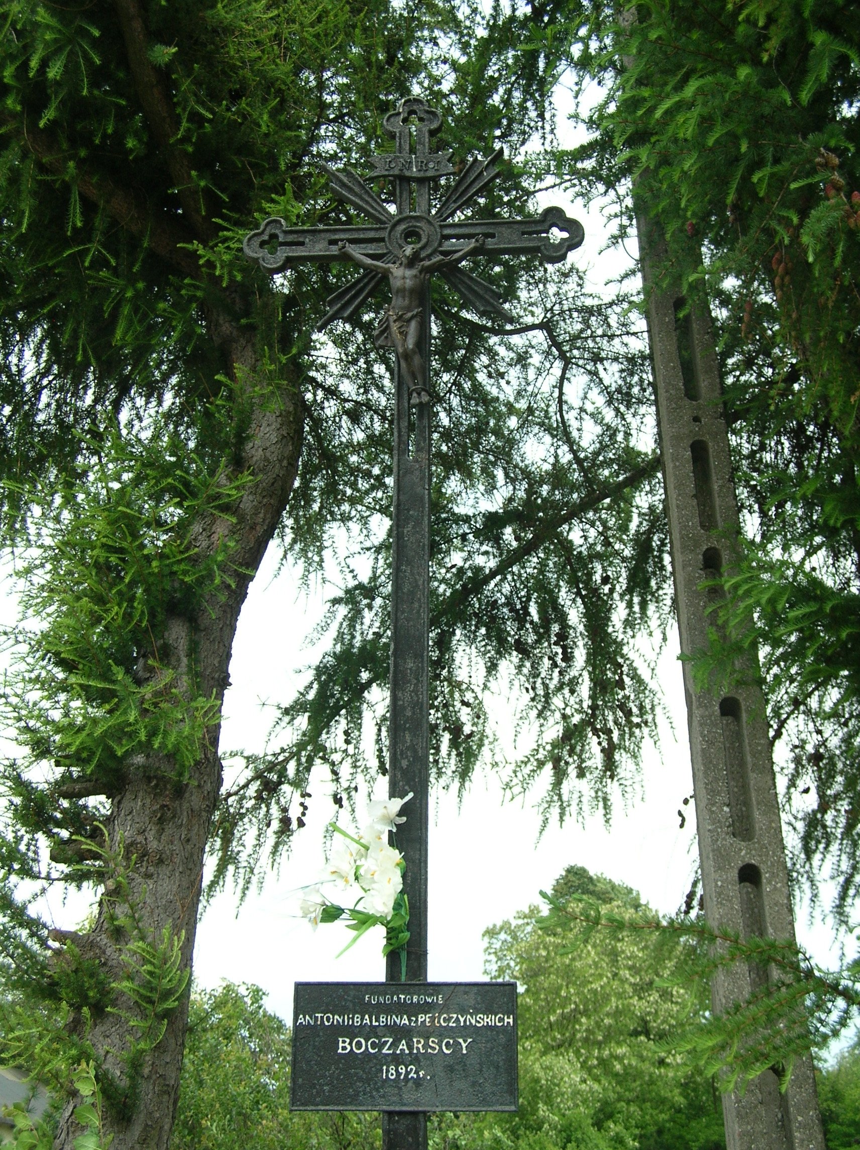 Crucifix in Kapkazy from 1892.